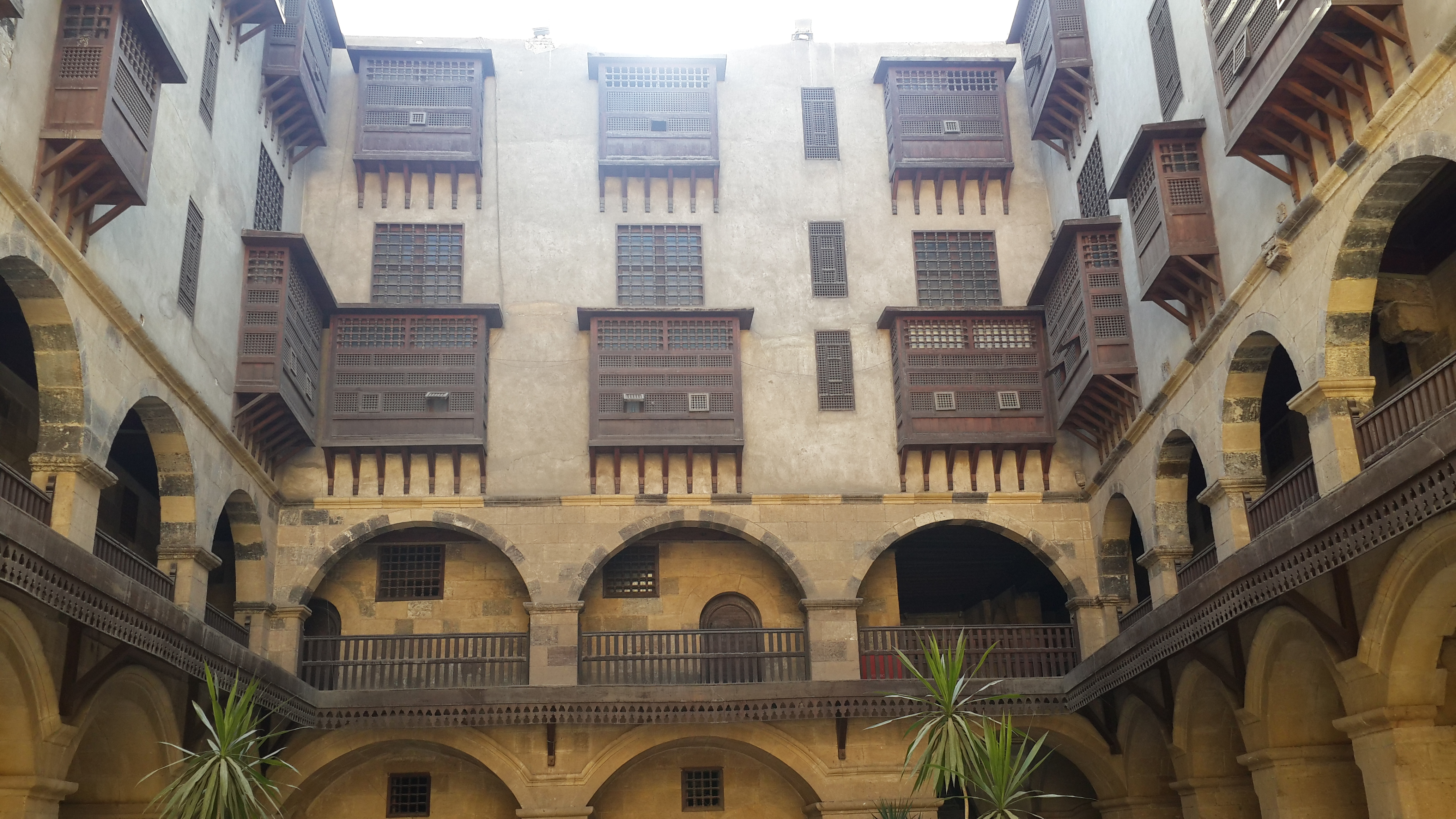 Collective houses "Rab’a" at "Bazara" wekalat- 17th century - monument no.398